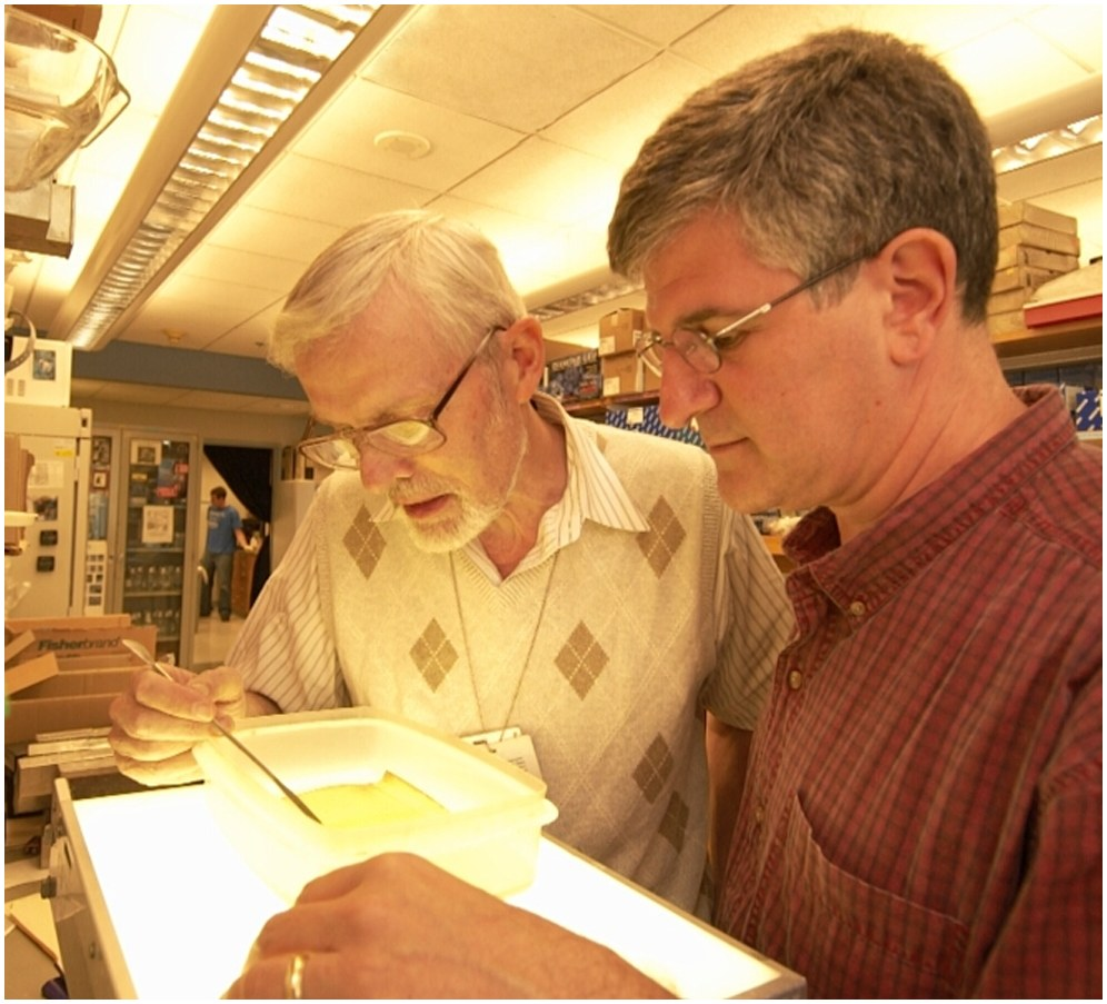 H. Fred Clark and Paul Offit, the inventors of RotaTeq, a pentavalent rotavirus vaccine Description quoted from source: When researchers announced in 1955 that a nationwide trial showed that the first polio vaccine was safe and effective, inventor Jonas Salk was greeted as a national hero. Today, rotavirus vaccine inventor Paul Offit (right, with co-inventor H. Fred Clark) routinely endures vitriolic attacks on his credibility, along with death threats, for defending the safety of vaccines. (Photo credit: The Children's Hospital of Philadelphia).